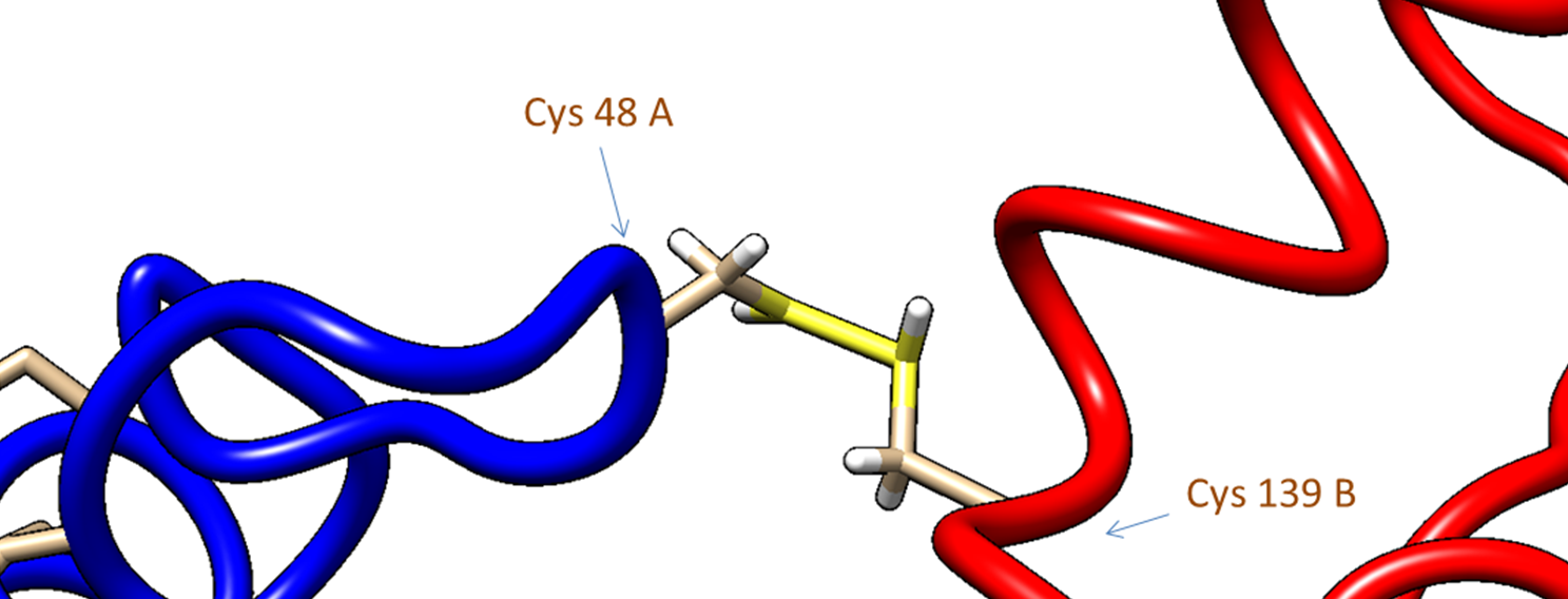 This is a close up of the disulfide bonds of PNMT where the dimer is formed.